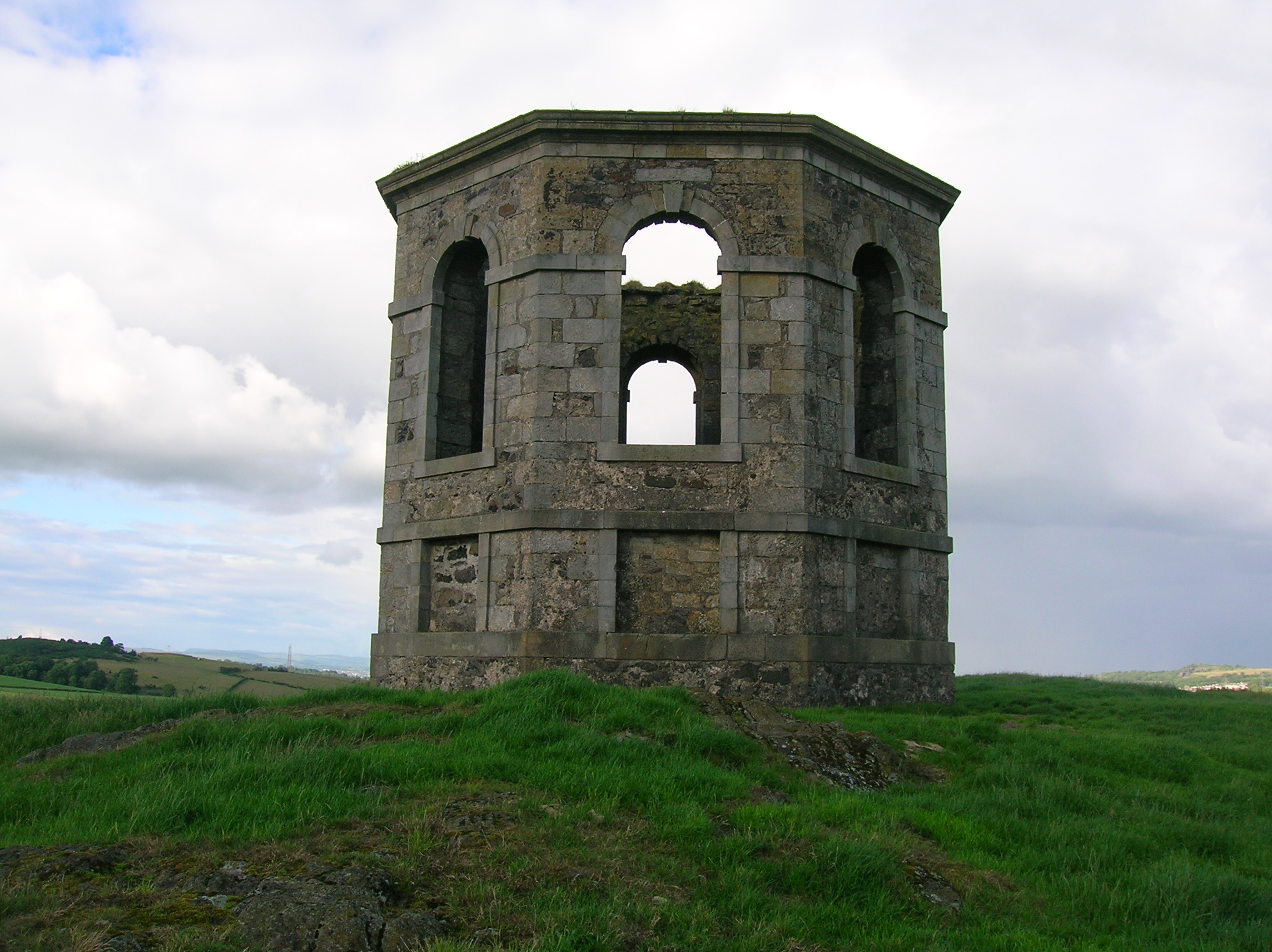 The Castle Semple Temple, Renfrewshire, Scotland.